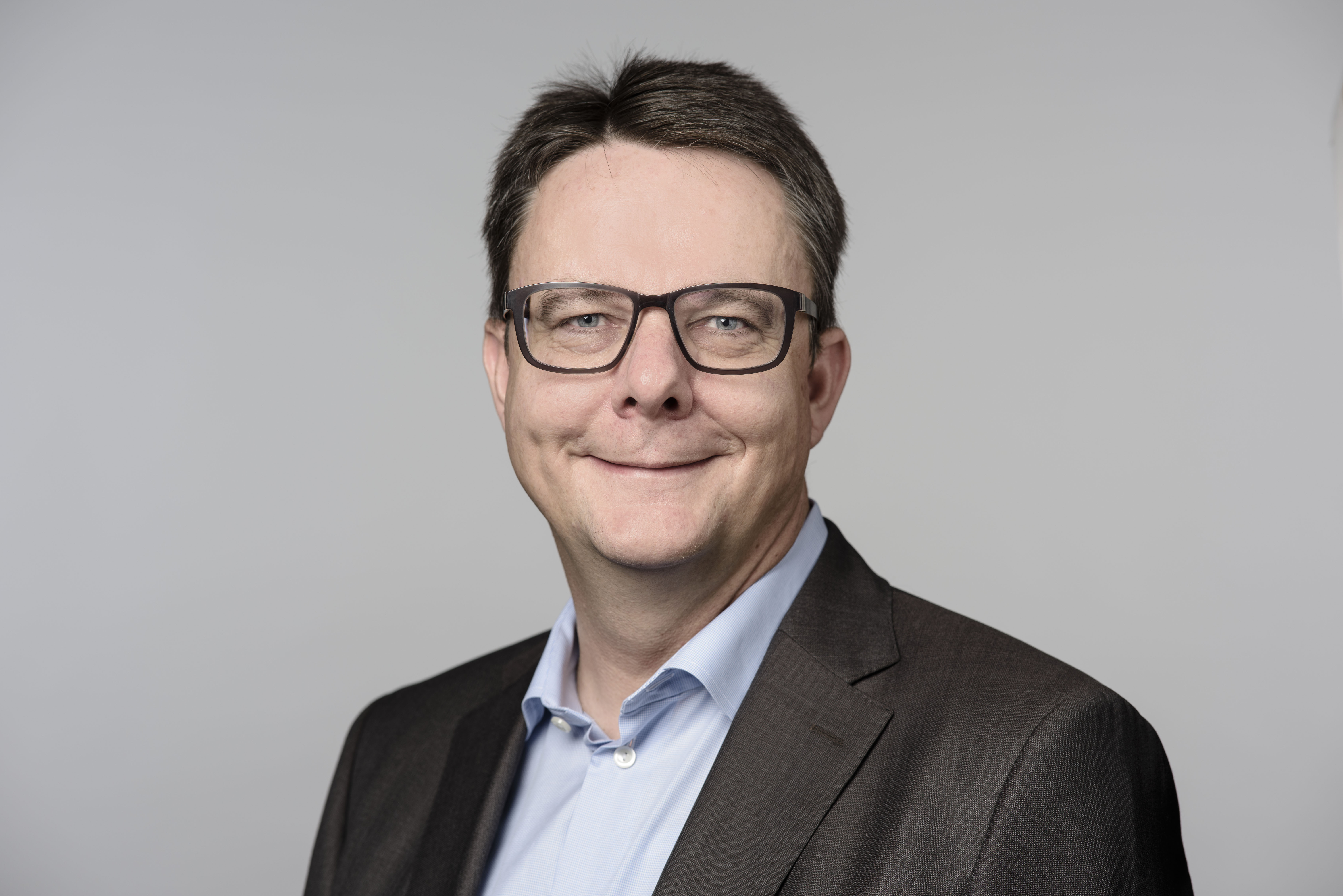 Portrait